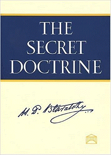 The Secret Doctrine, Helena Blavatsky (1831-1891), Cover Edition 1888